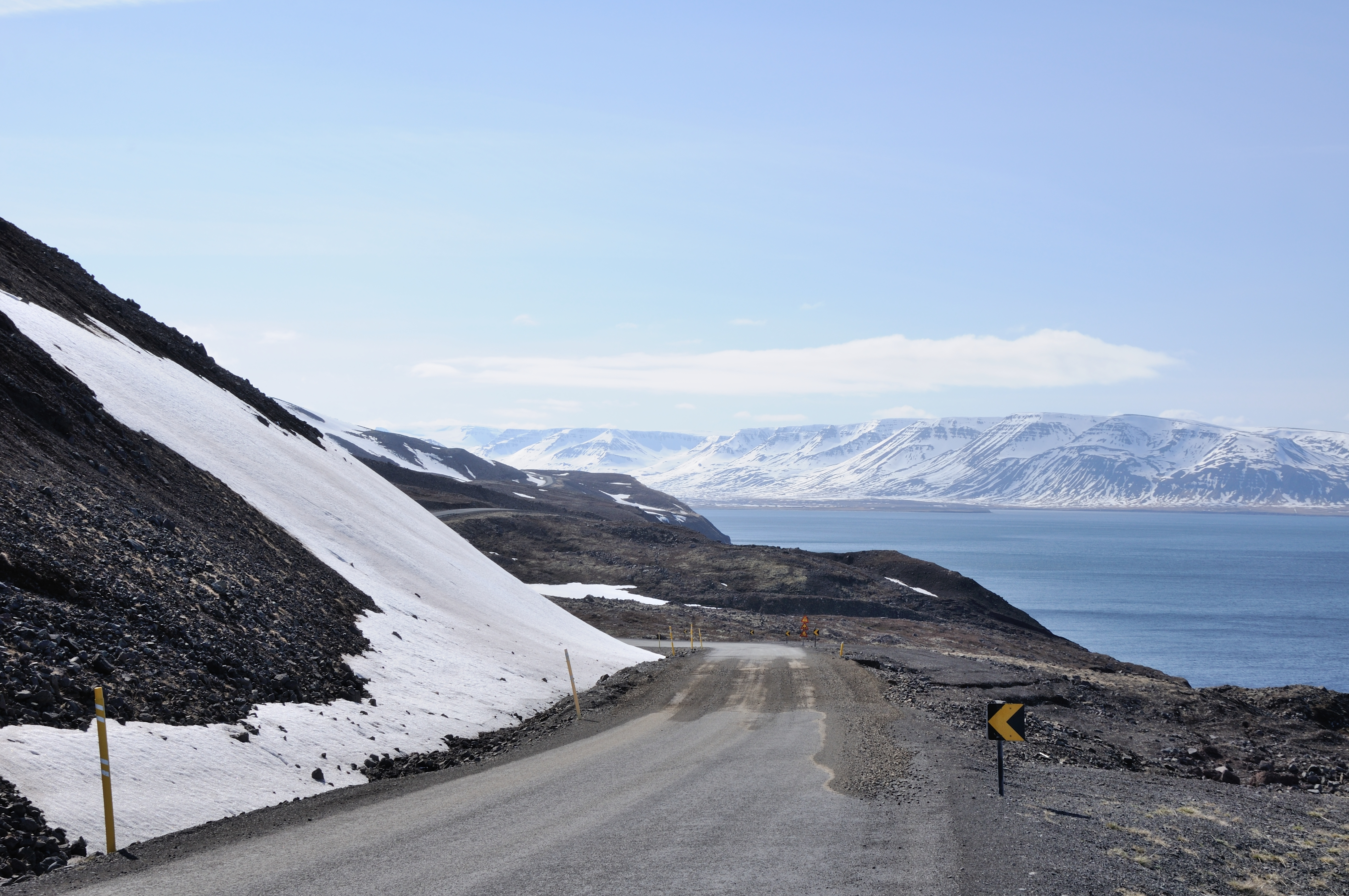 Iceland, impressions along road 76